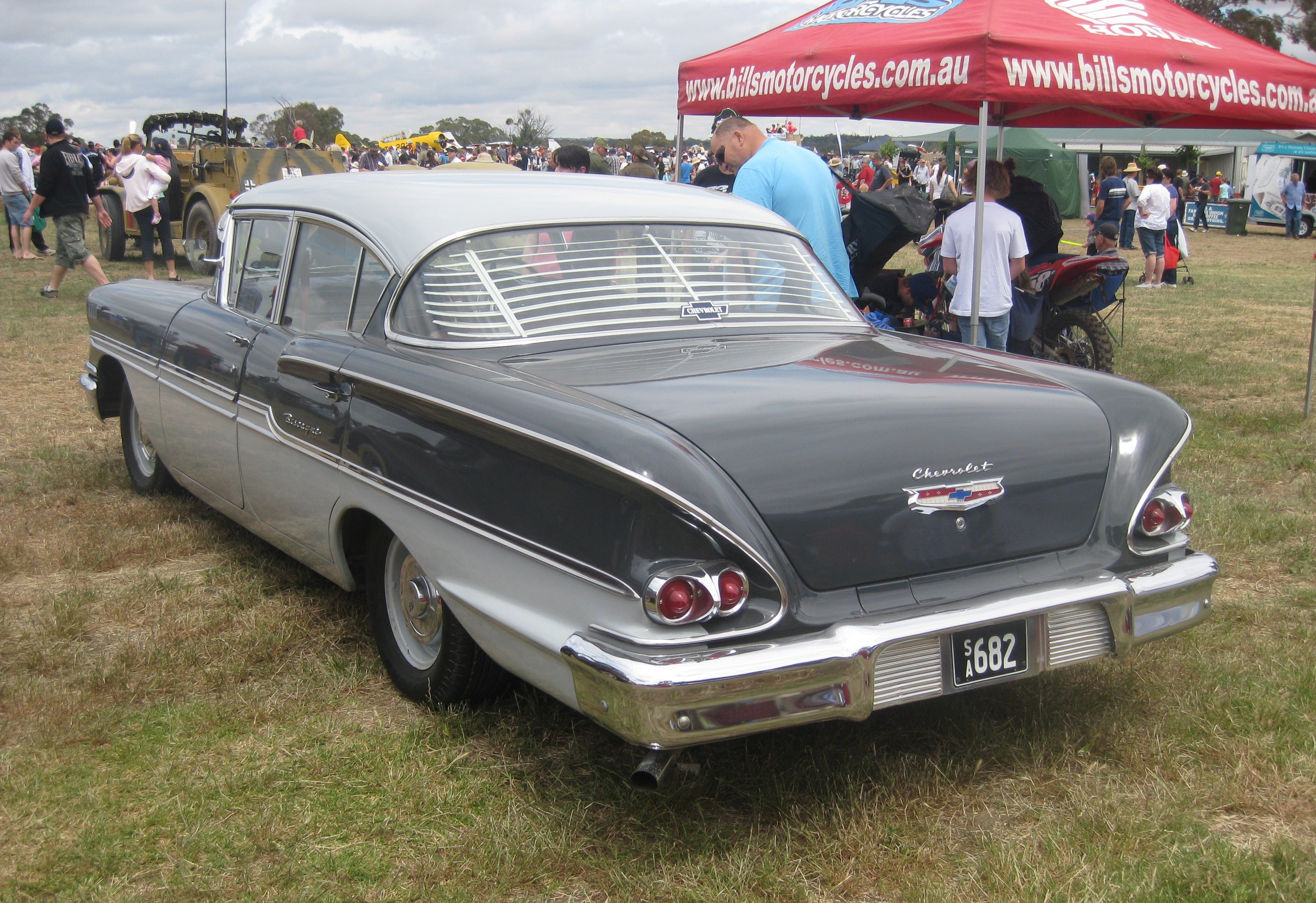 1958 Chevrolet Biscayne 4-Door Sedan at the 2011 Barossa Air Show in South Australia. The 1958 Biscayne was assembled in Australia by General Motors-Holden's in 4 door sedan form only, unlike in the US where it was also offered as a 2 door sedan.